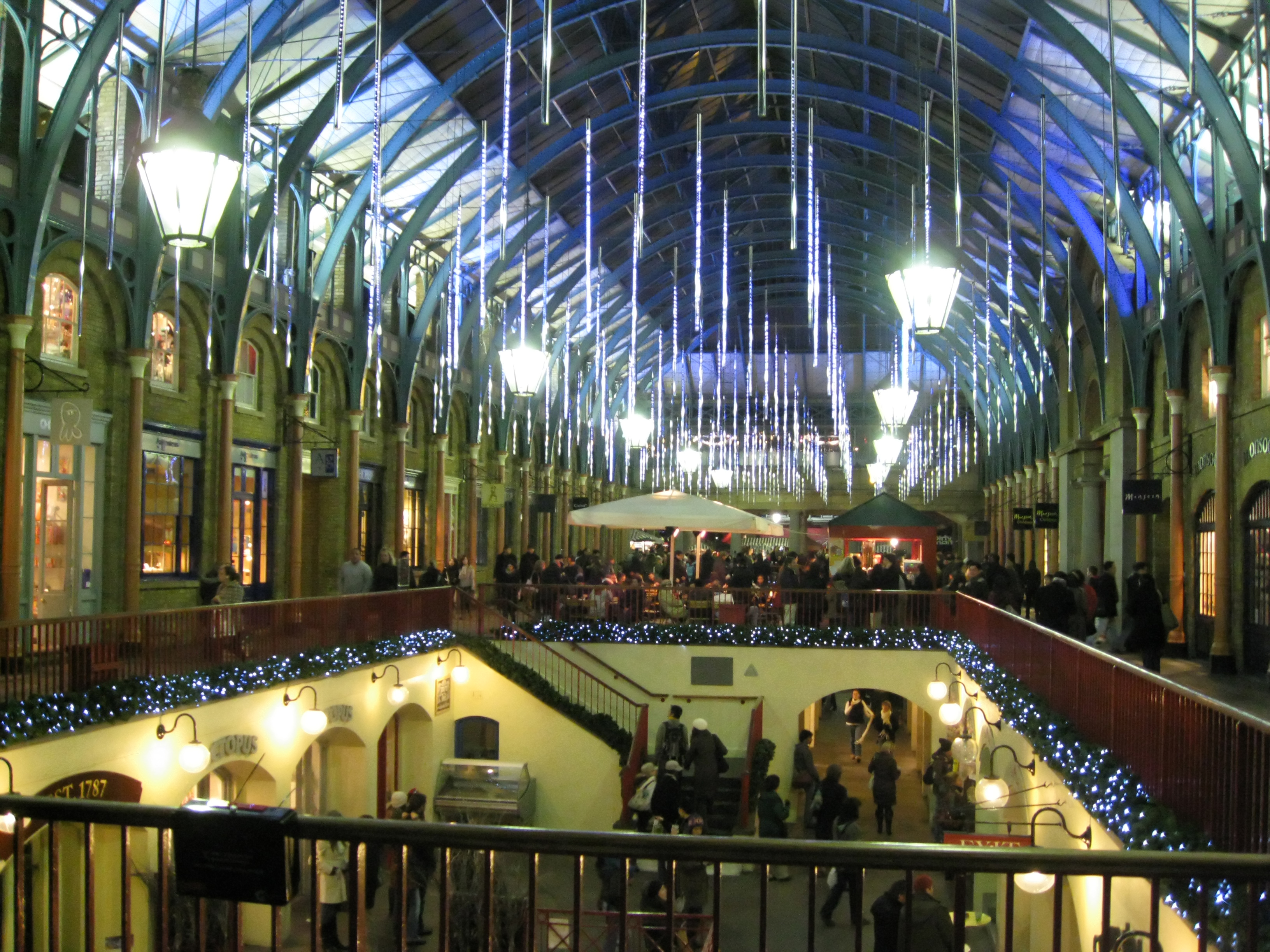 Covent Garden Market, London, UK, Christmas 2008